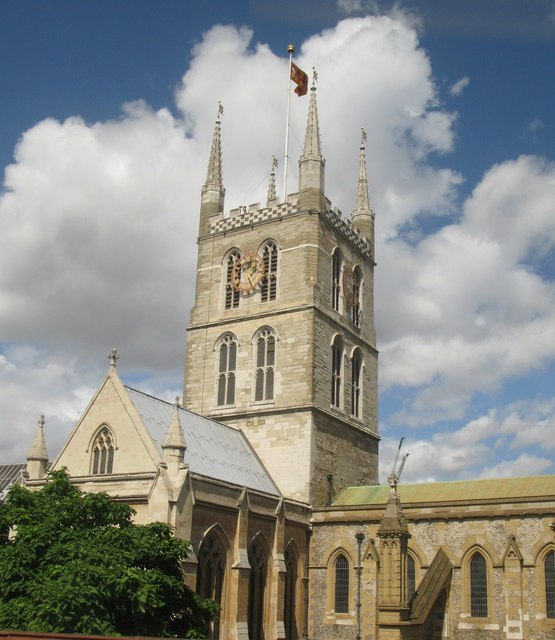 Southwark Cathedral